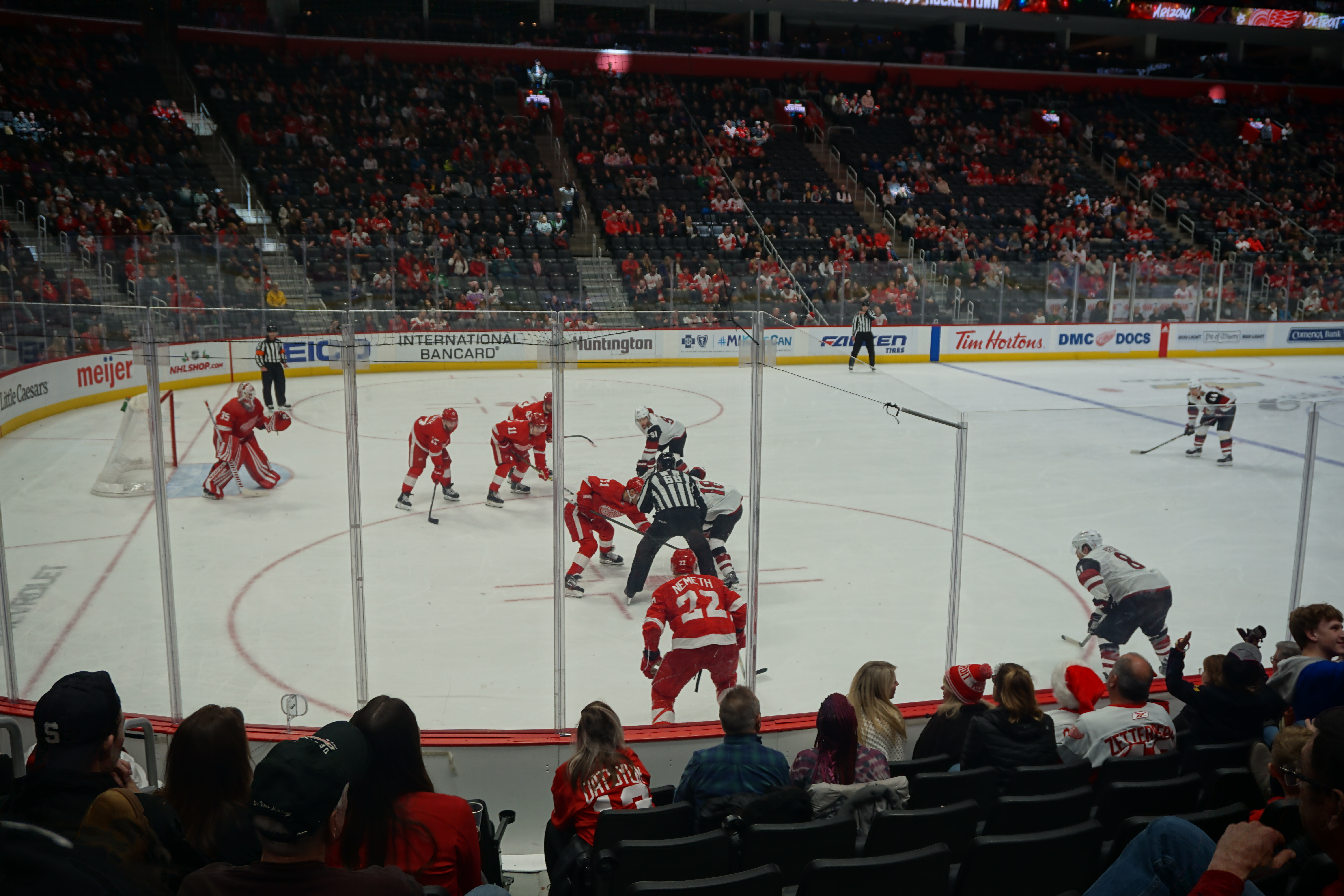 In-game action during the Arizona Coyotes vs. Detroit Red Wings ice hockey game at Little Caesars Arena in Detroit, Michigan (United States). Arizona won 5–2.